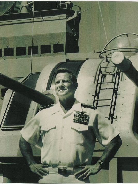 VADM Henry C. Mustin, COMSECONDFLT, aboard his command ship USS Mount Whitney (LCC-20).